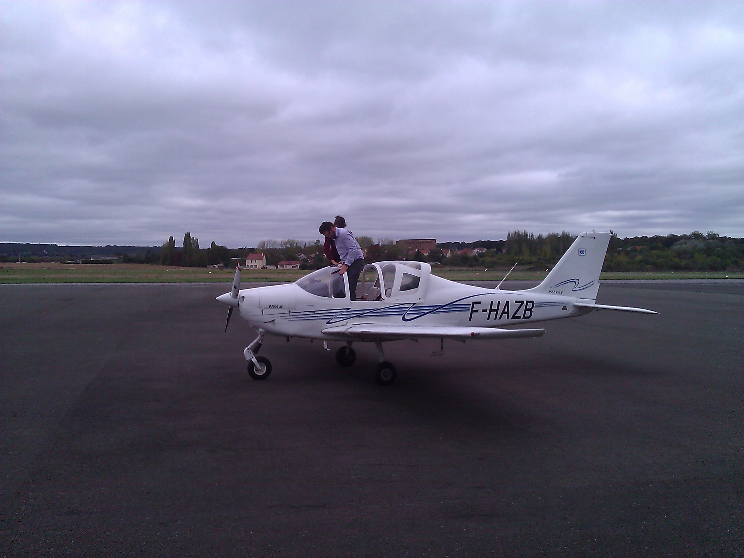 Tecnam P2002 JF F-HAZB belonging to Aéroclub de Boulogne Billancourt on the ground at LFPZ (Saint Cyr l'Ecole, France)